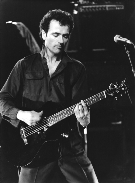 Hugh Cornwell (The Stranglers) during the recording of French TV show "l'Echo des bananes" in september 1983